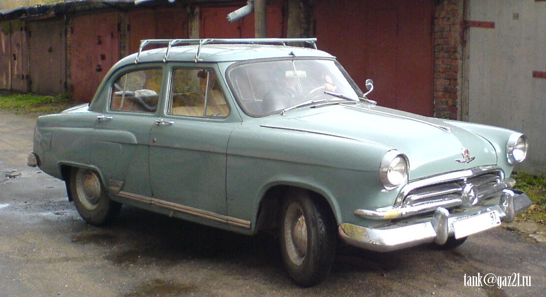 GAZ-21 '1957 First series (1956-1958).